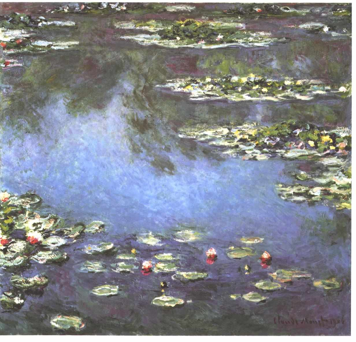 Waterlilies Art Institute of Chicago